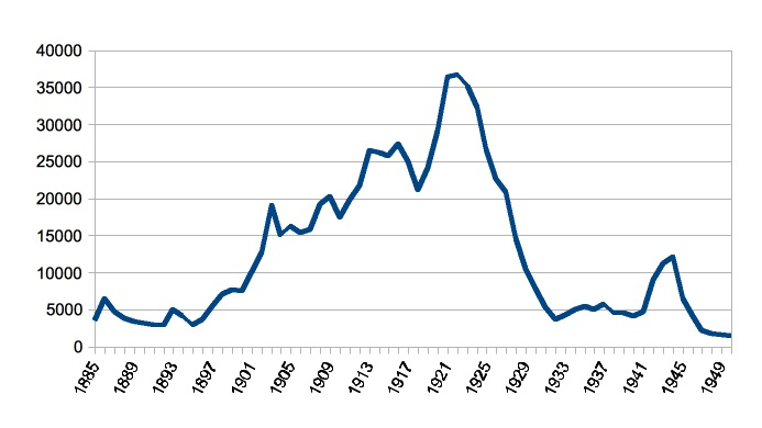 tickets sales 1881-1950 - derived from annual returns to Parliament of "Statement of Revenue for each Station for the Year ended"